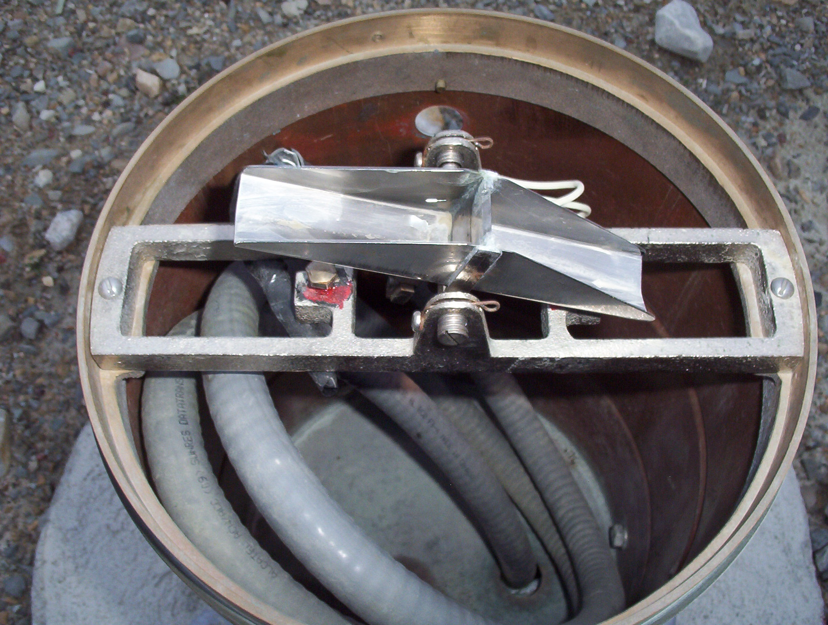 The interior of a tipping bucket rain gauge. On the left side can be seen a collection of rain (slightly darker area). At the time this picture was taken there had been no rain for more than 24 hours. This means that even a small amount of rain will cause the lever to tip and register 0.2 mm, giving an incorrect reading. It is for this reason that the standard rain gauge is used to measure the quantity of rainfall. The large, grey coiled object below the tipping bucket assembly is a weatherproof flexible conduit that carries the sensor wires to the rainfall recorder. Picture taken at Cambridge Bay, Nunavut, Canada.